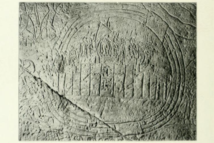 Relief in Abu Simbel depicting the city of Kadesh. The Orontes river surrounds the fortified city, which appears to be garrisoned by Hittites, one of whom bears a standard. Reign of Ramesses II, 19th dynasty, New Kingdom.